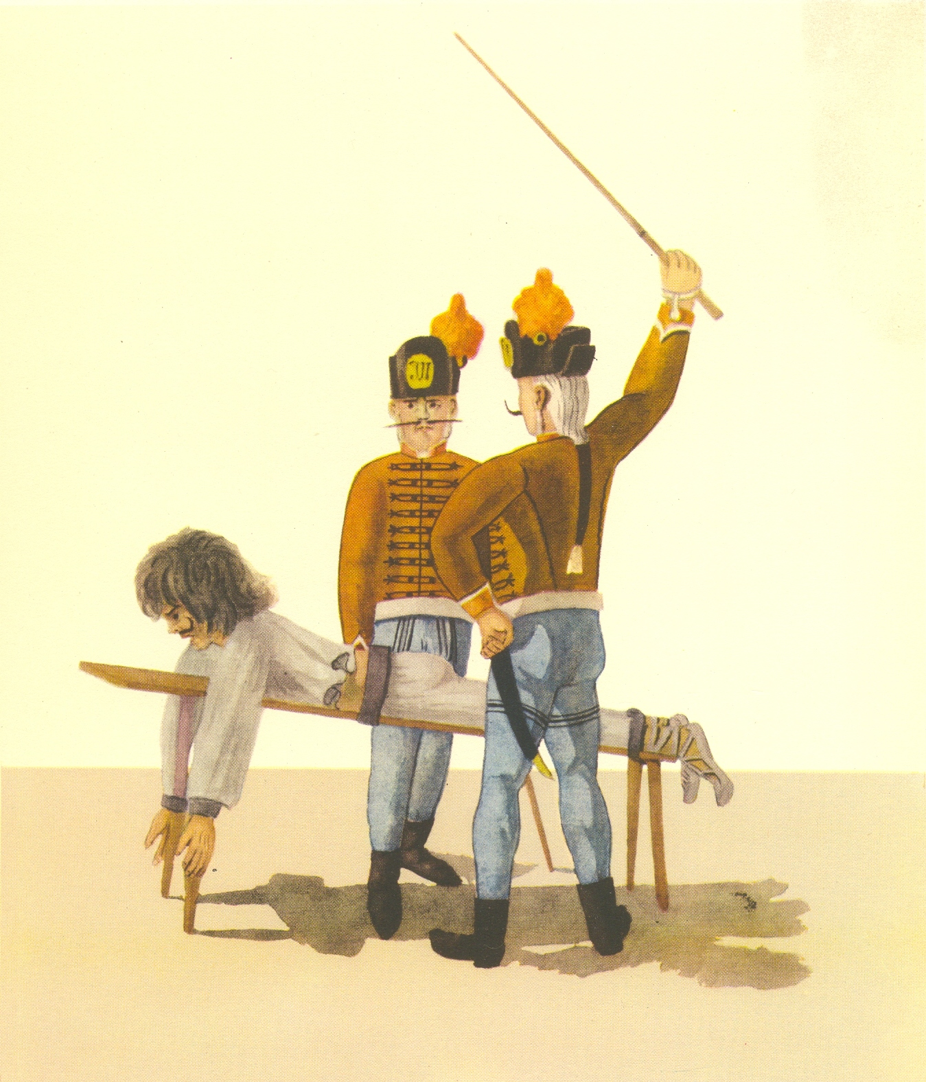 Punishment of a offender in Temeswar